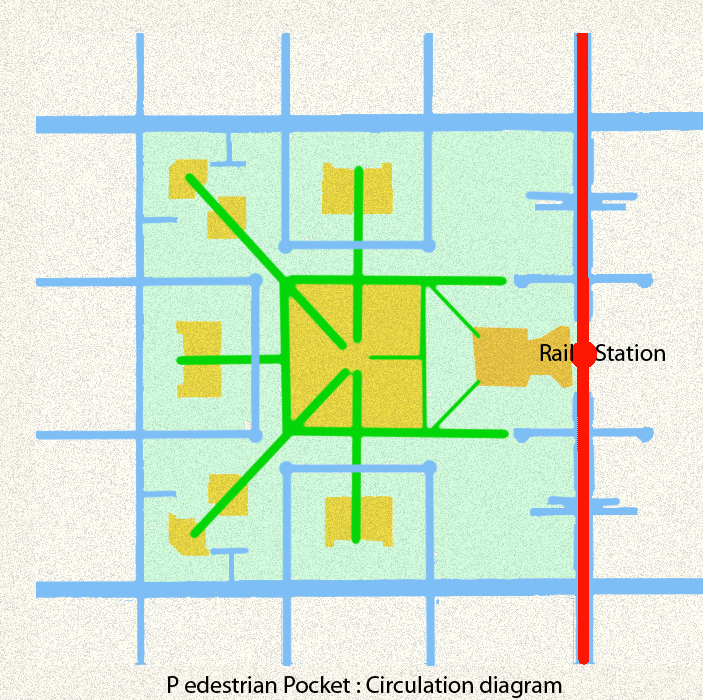 A diagramatic illustration of the streets, paths and open, common spaces in a "Pedestrian Pocket"(after Peter Calthorpe).